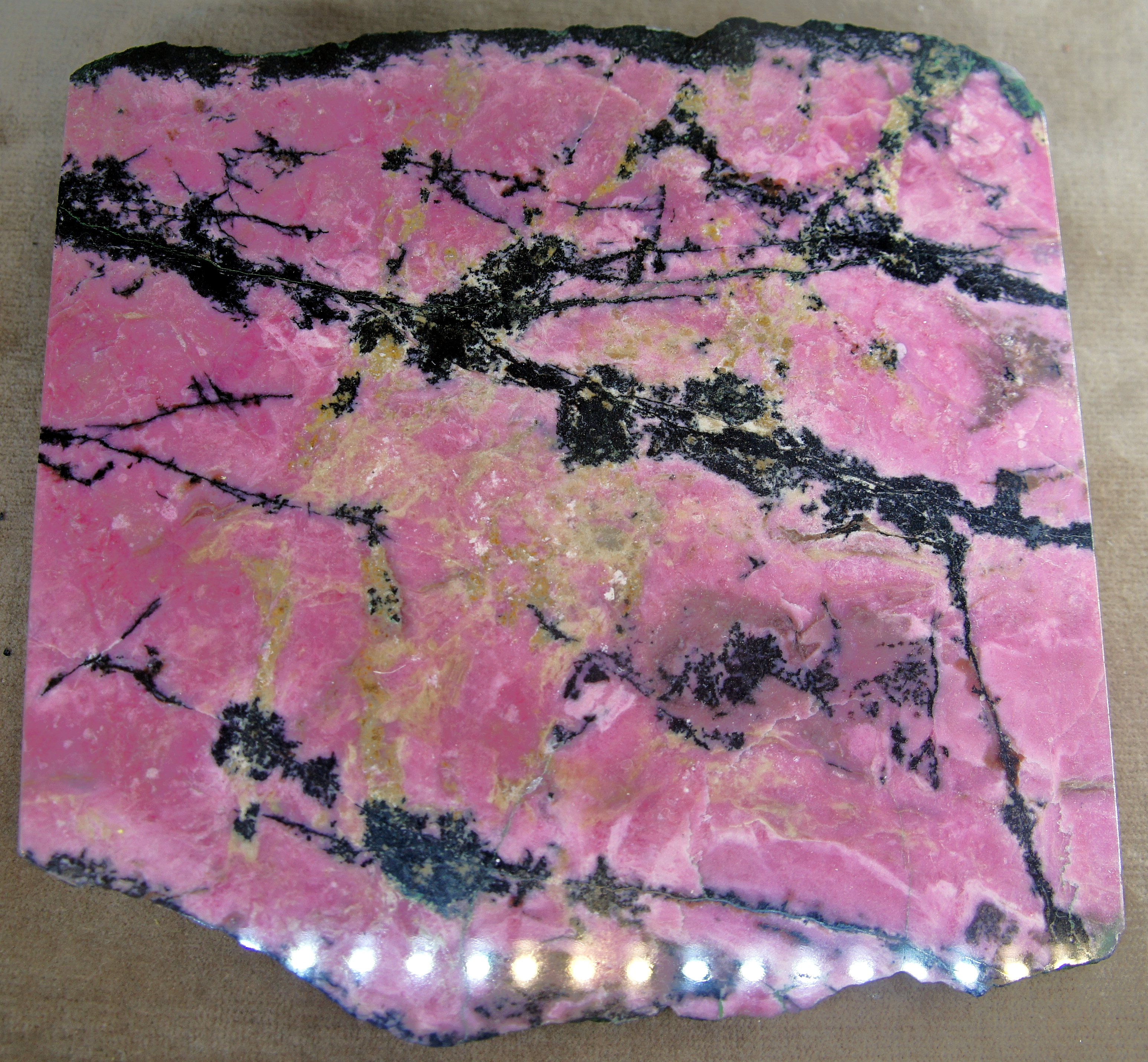 Rhodonite